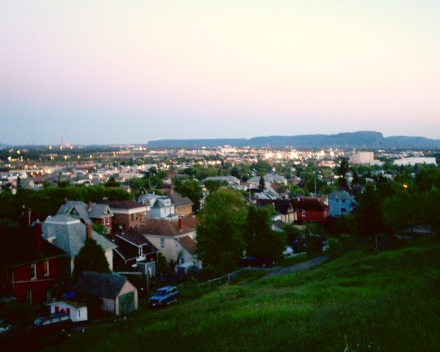 View of Mount McKay from Hillcrest Park in Thunder Bay, Ontario